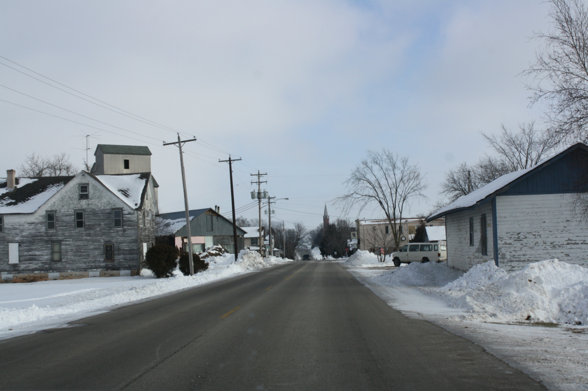 Looking east at downtown Maplewood, Wisconsin.